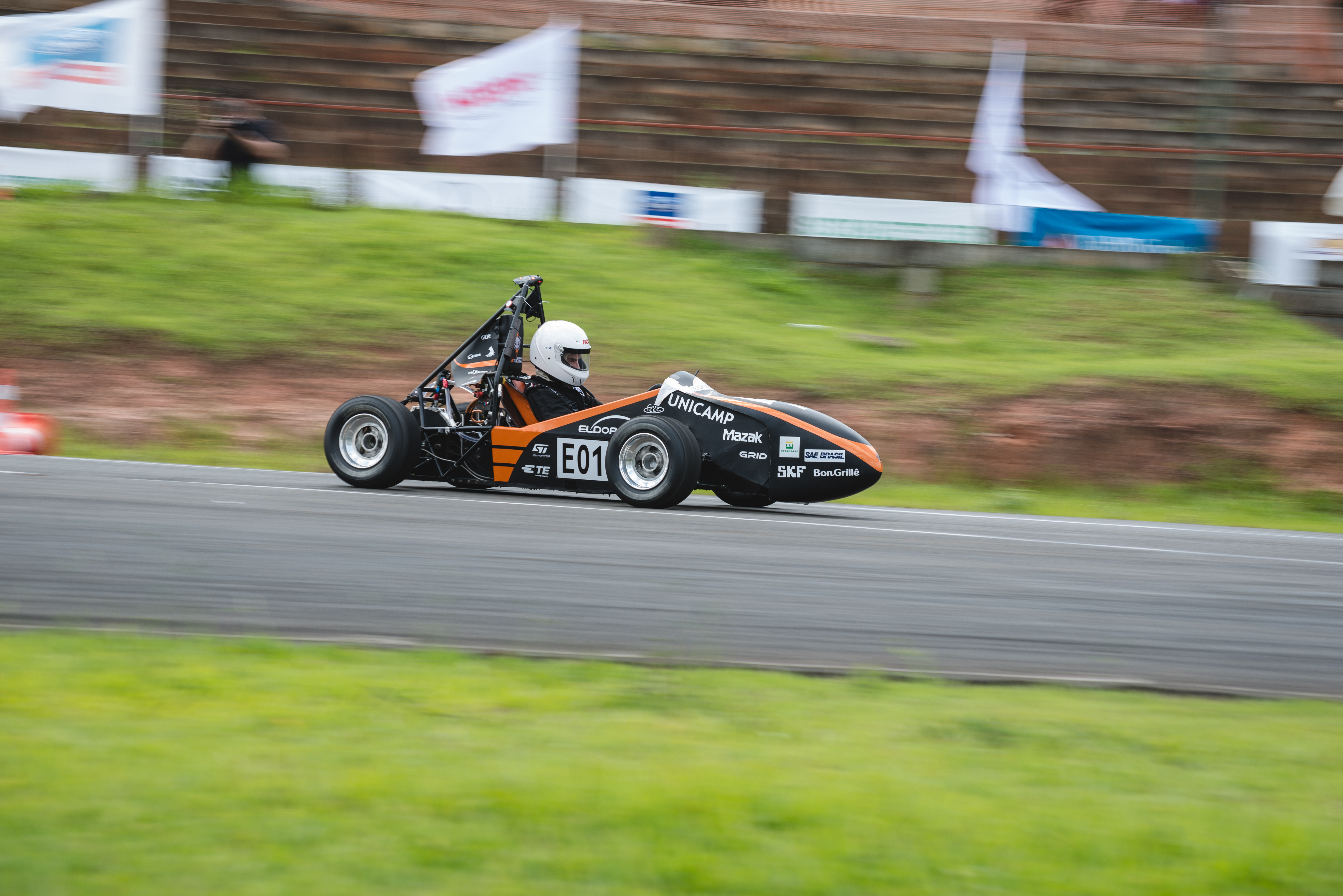 Unicamp-e Racing